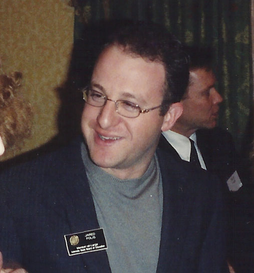 Jared Polis at an Independence Institute event at the Brown Palace in Denver, December 5, 2002.